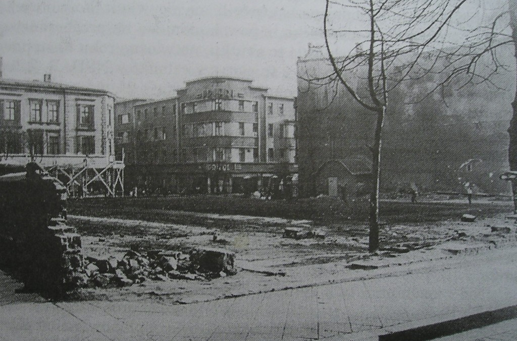 Ruins of thesynagogue of Königshütte (Chorzów now in Poland) destroyed by the nazis in 1939